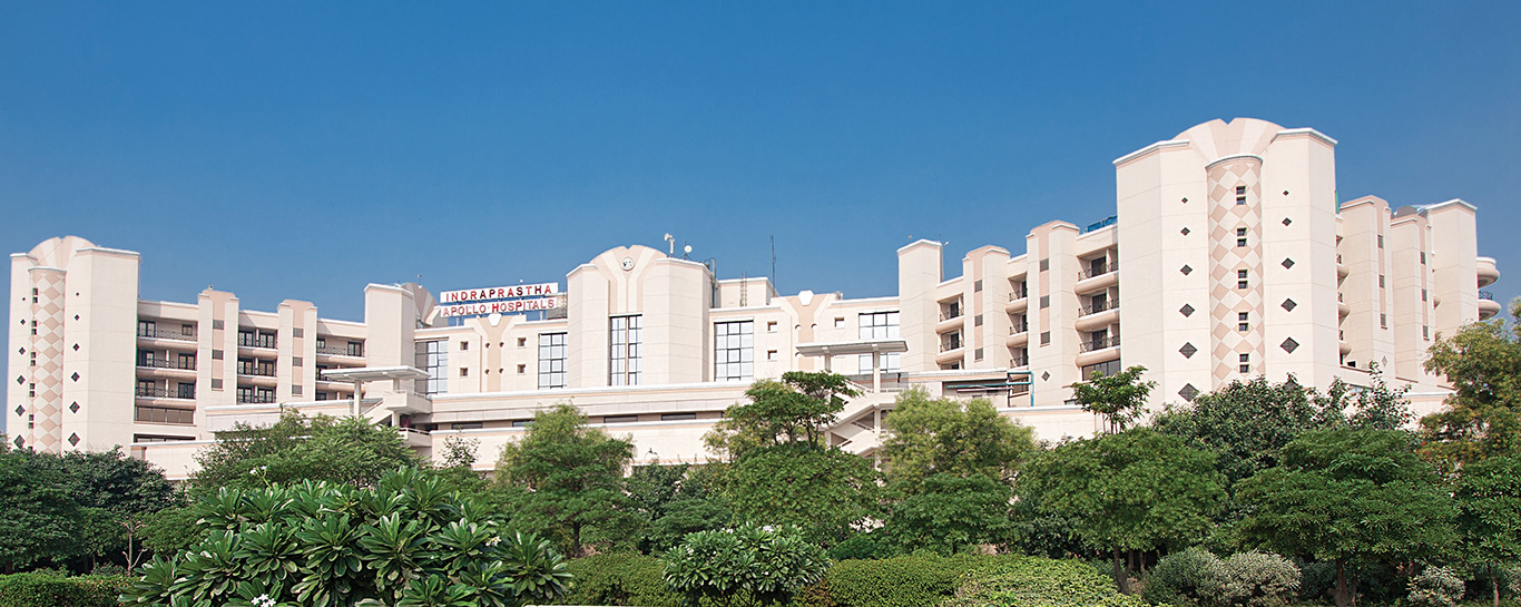 Front view of Apollo Hospital Indraprastha